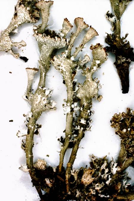 Cladonia cervicornis subsp. verticillata (Hoffm.) Ahti, 1980 Photograph of a herbarium specimen. Cladonia cervicornis subsp. verticillata was growing on forest soil along Trail 517 about 2 miles from Forest Service Road 19 at the Dolly Sods Wilderness Area of the Monongahela National Forest, Randolph County, West Virginia, USA. Collected and determined by E.C. Uebel (No. U-32, 19 May 2001).